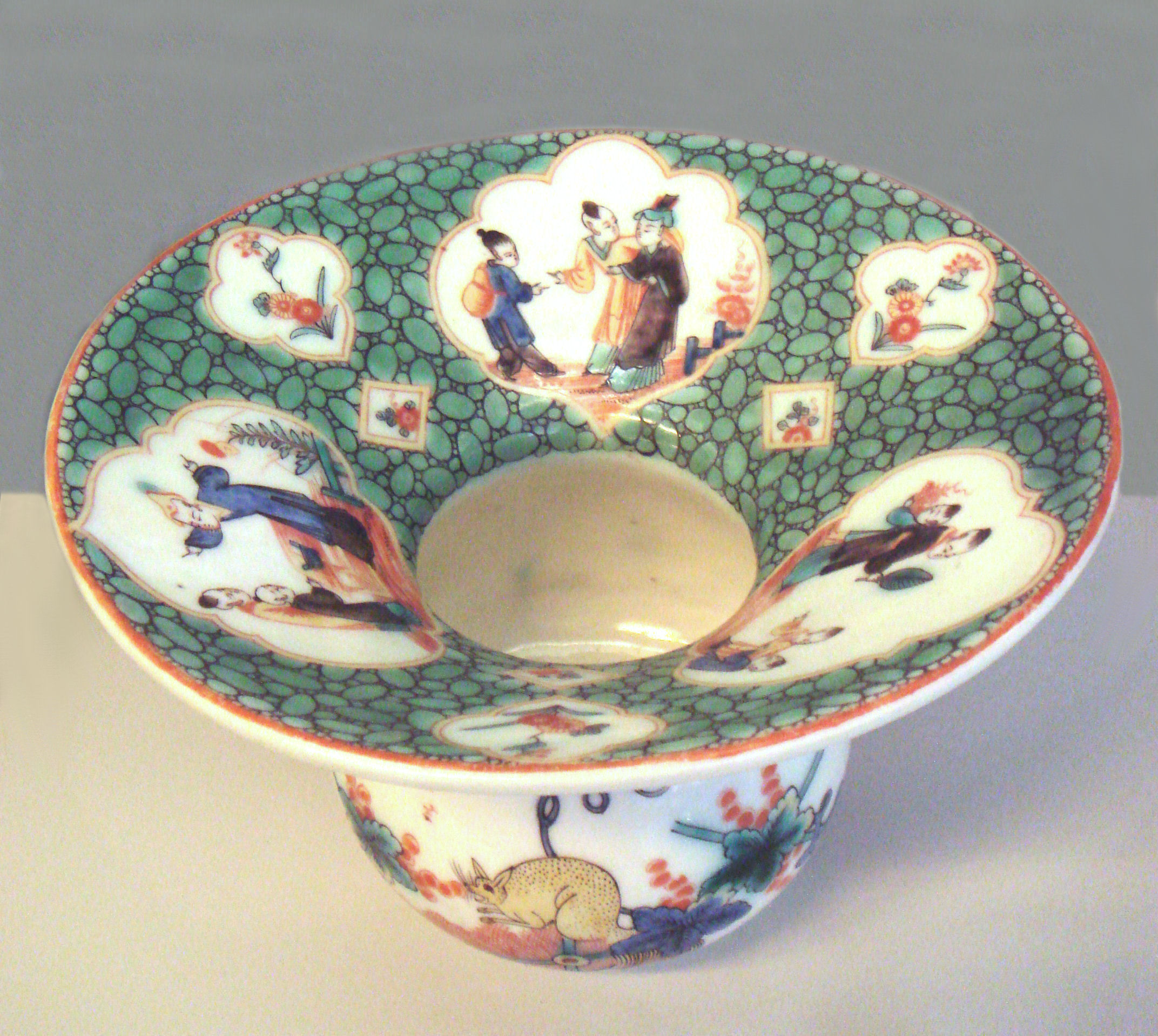 Saint_Cloud_soft_porcelain_spitting_bowl_Famille_verte_1730_1740. Inventory number 33781